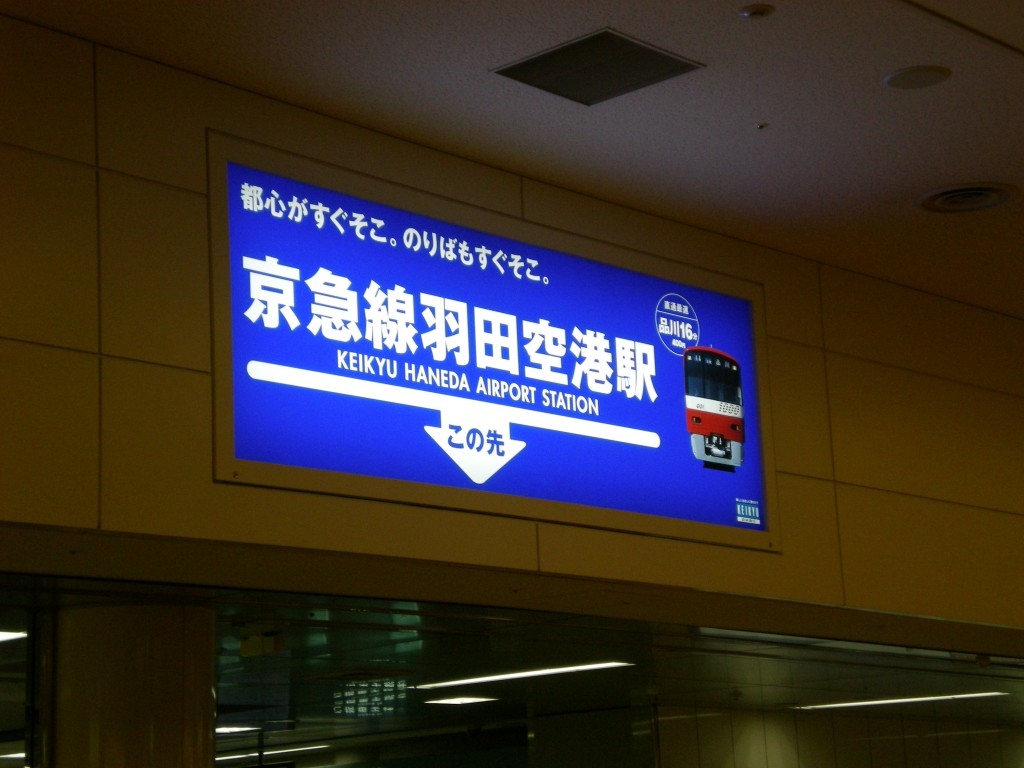 Keihin Electric Express Railway Haneda Airport Station